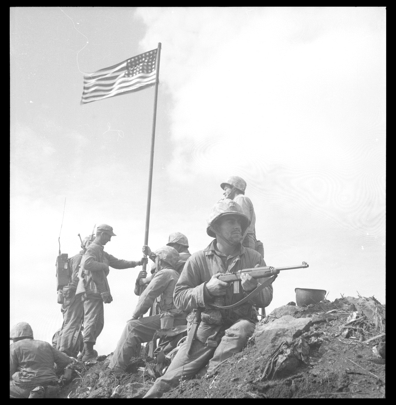 From the Louis R. Lowery Collection (COLL/2575) at the Archives Branch, Marine Corps History Division OFFICIAL USMC PHOTOGRAPH